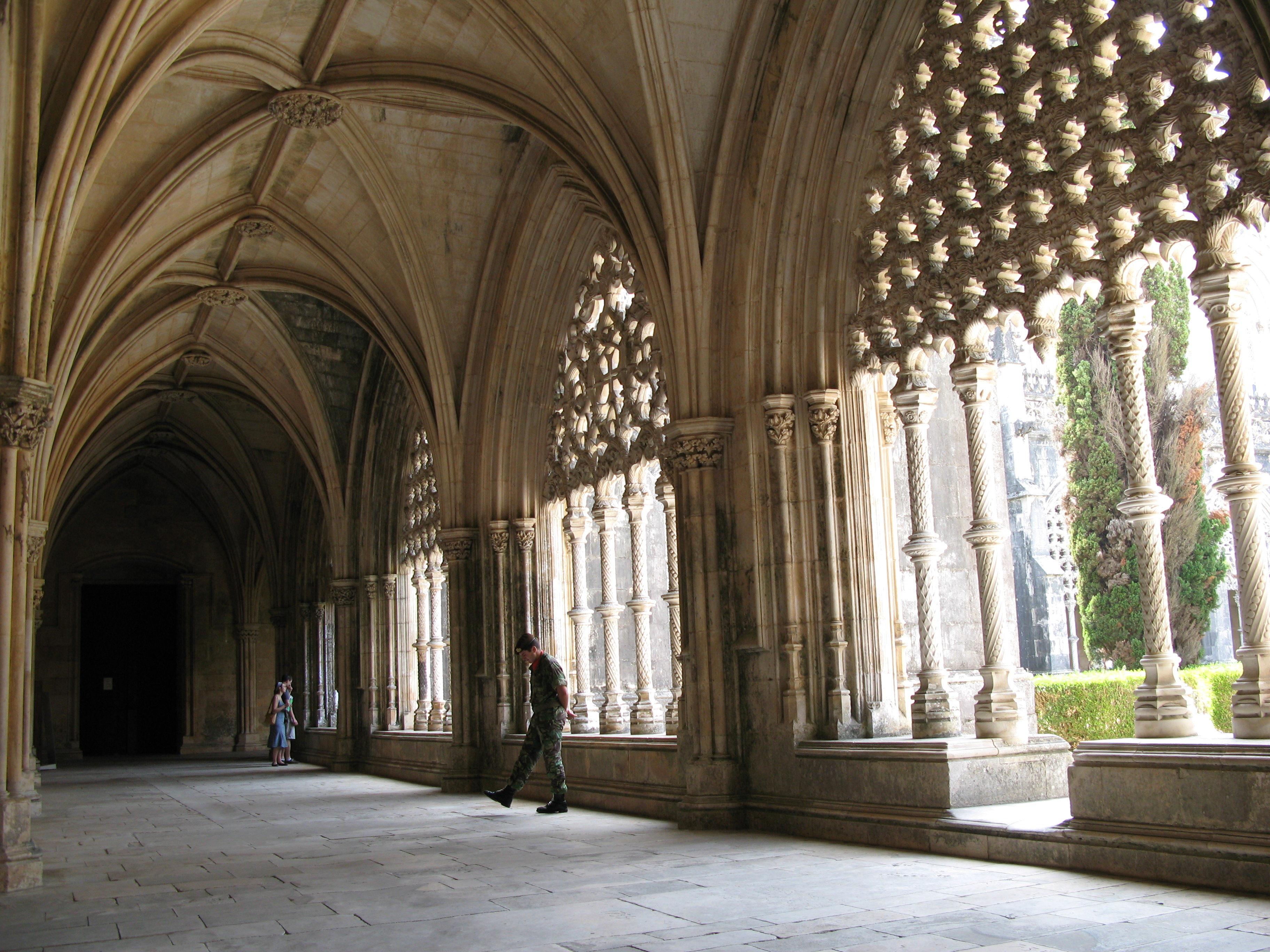 Cloisters of Batalha Monastery, Portugal